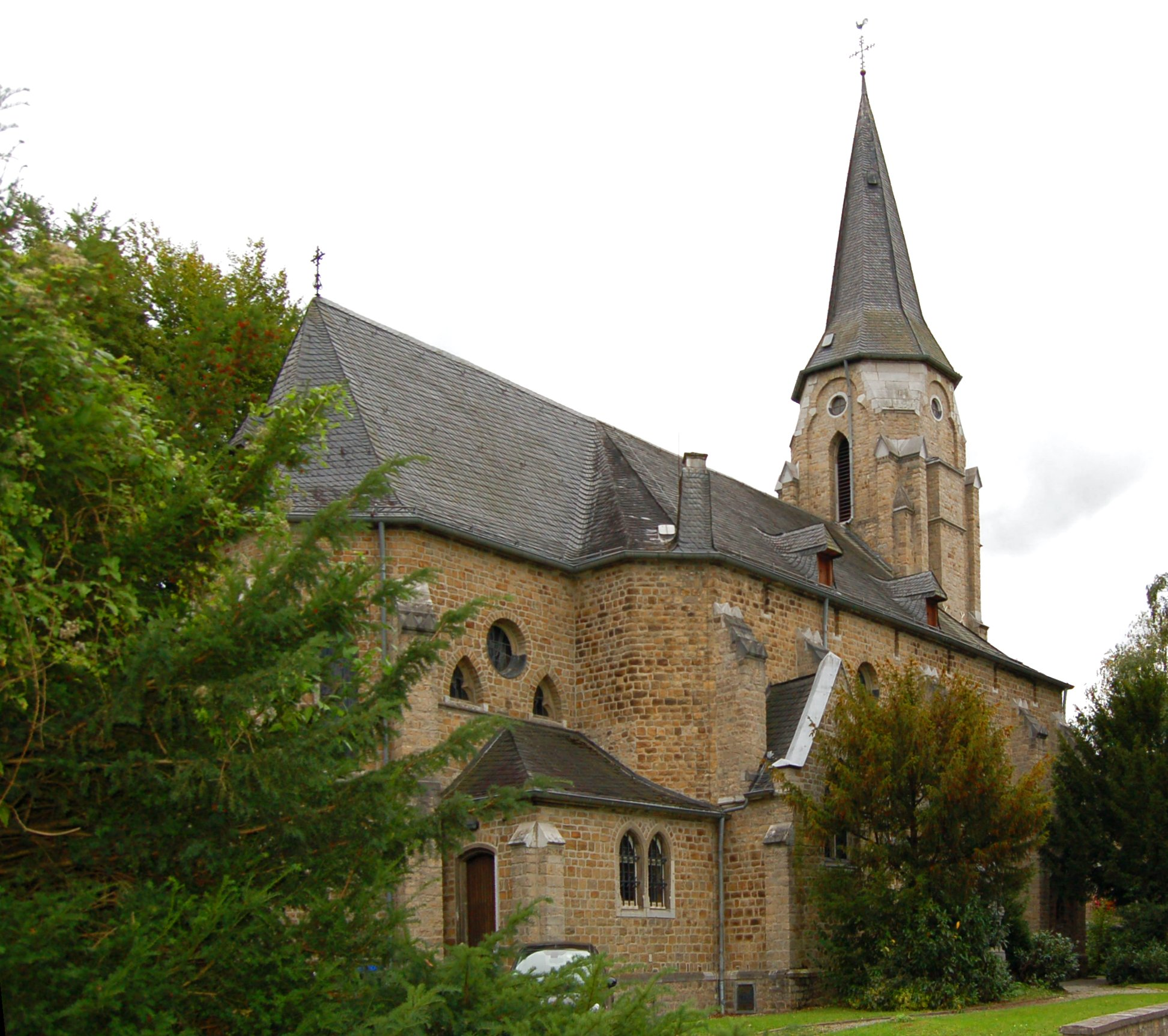 Church St Maria in Aachen Hahn